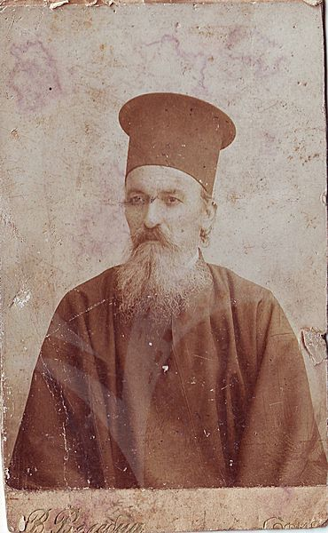 Bulgarian Priest from Smilevo